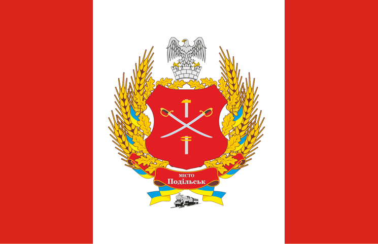 The flag of the City of Podilsk, Odessa Oblast, Ukraine